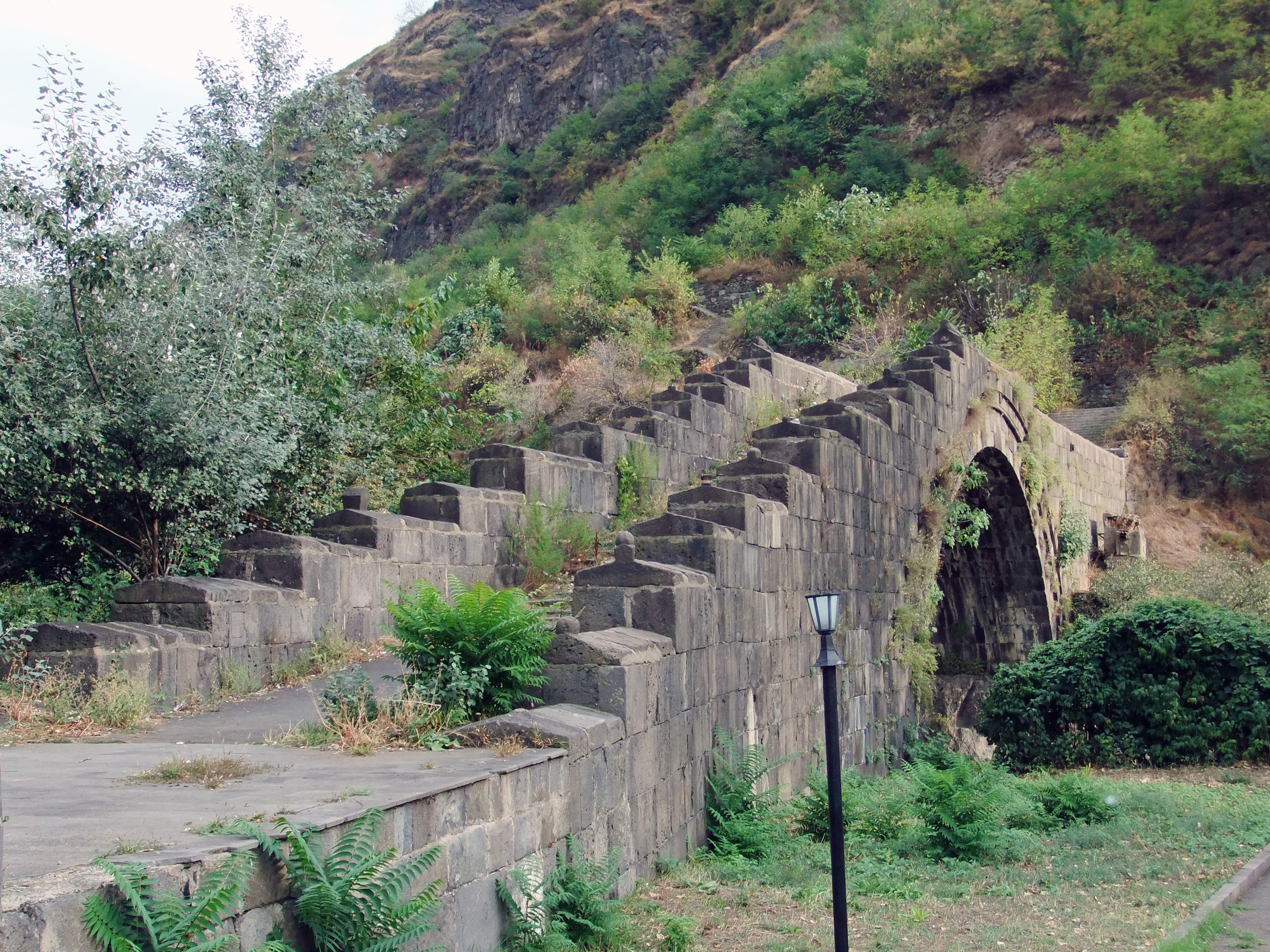 Sanahin bridge near Alaverdi built in 1195